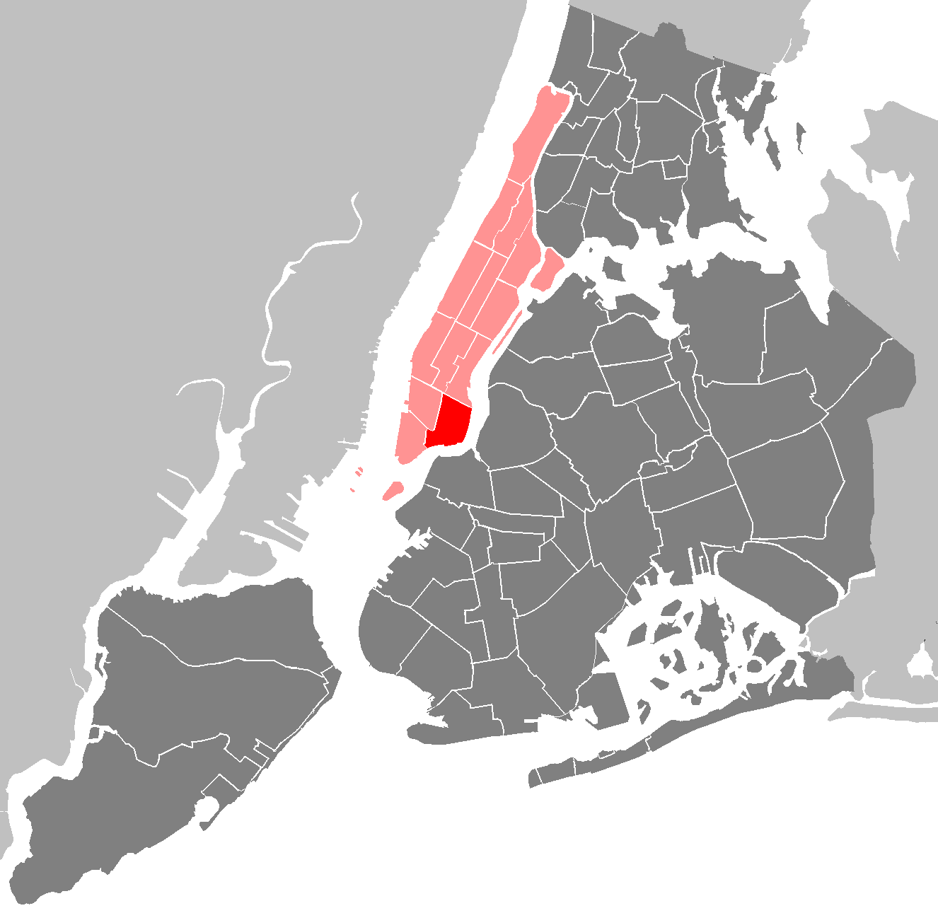 Category:Maps of New York City: New York City - Manhattan - Community Board 3.PNG